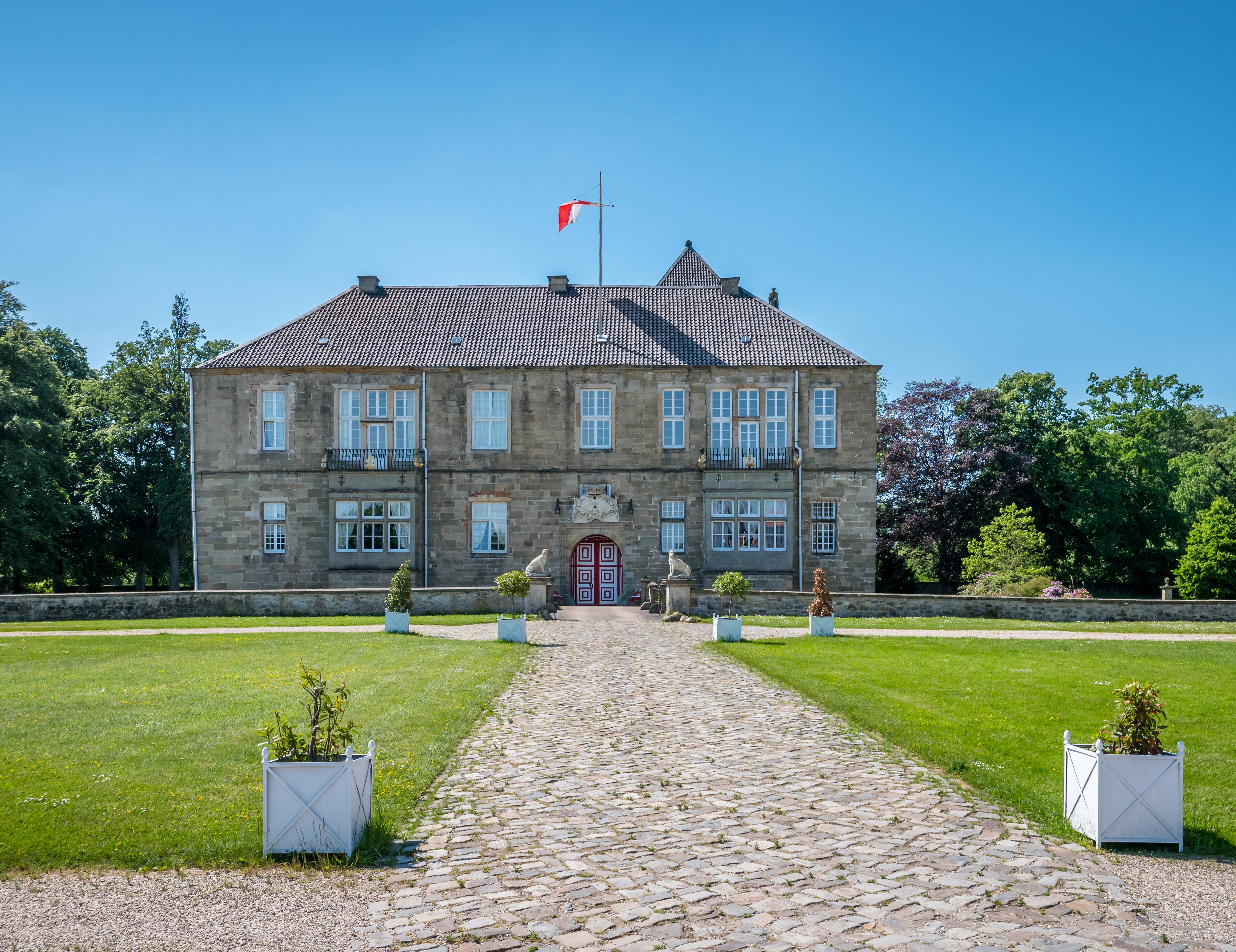 Gesmold Castle near Melle. Osnabrück Land, Lower Saxony, Germany